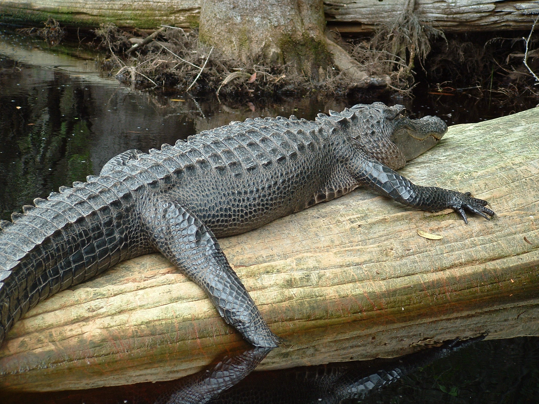 An alligator lounges on a log in the Okefenokee Swamp.